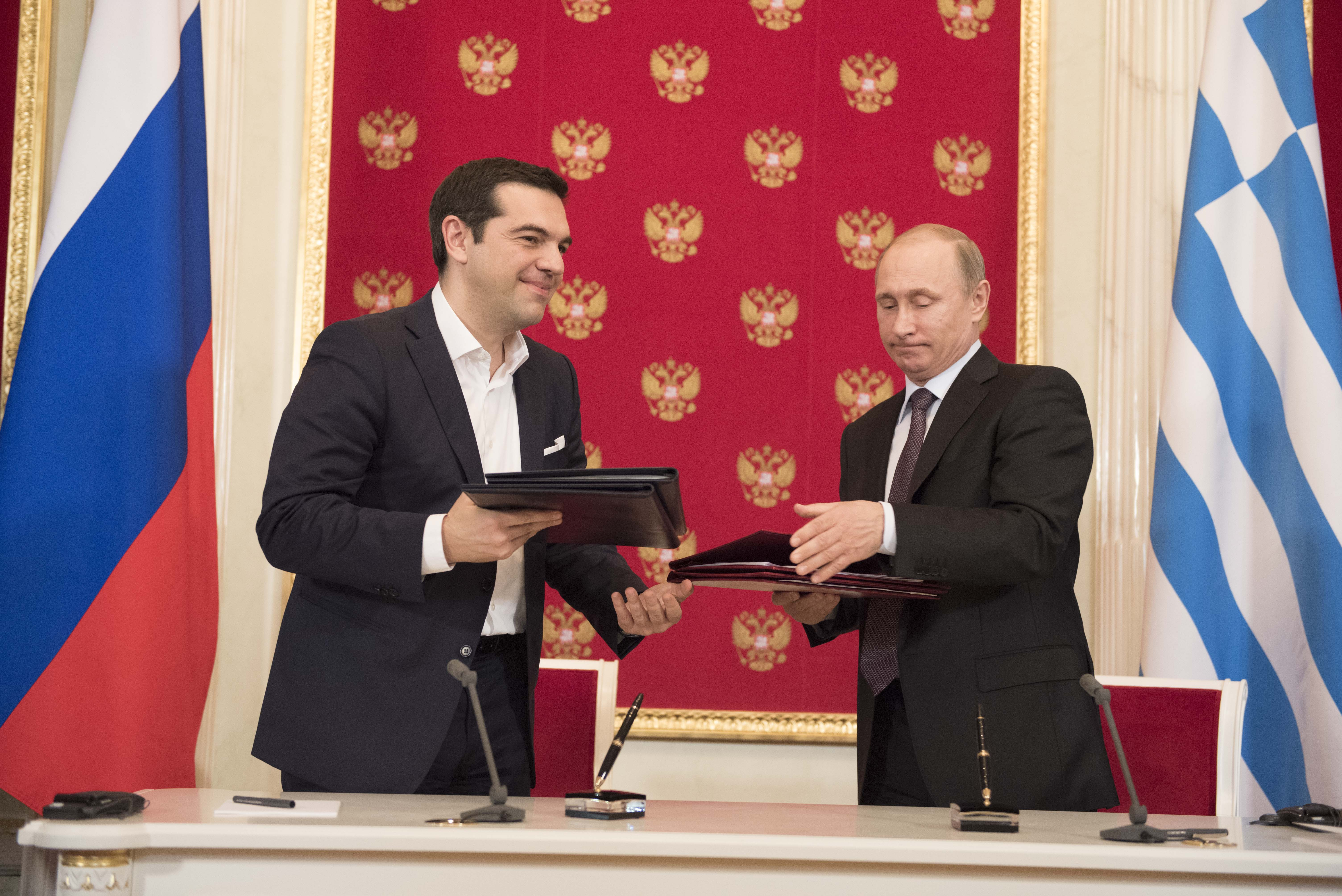 Press conference